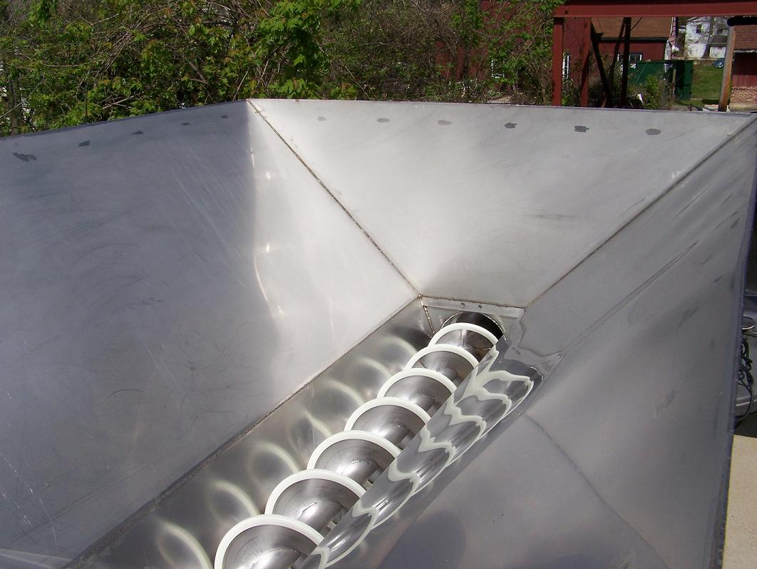 Feed auger on top of the desteming/Crushing basket. taken at Augusta Winery in Augusta, Missouri on Sat April 28th, 2007. Photo taken with a Kodak z650.